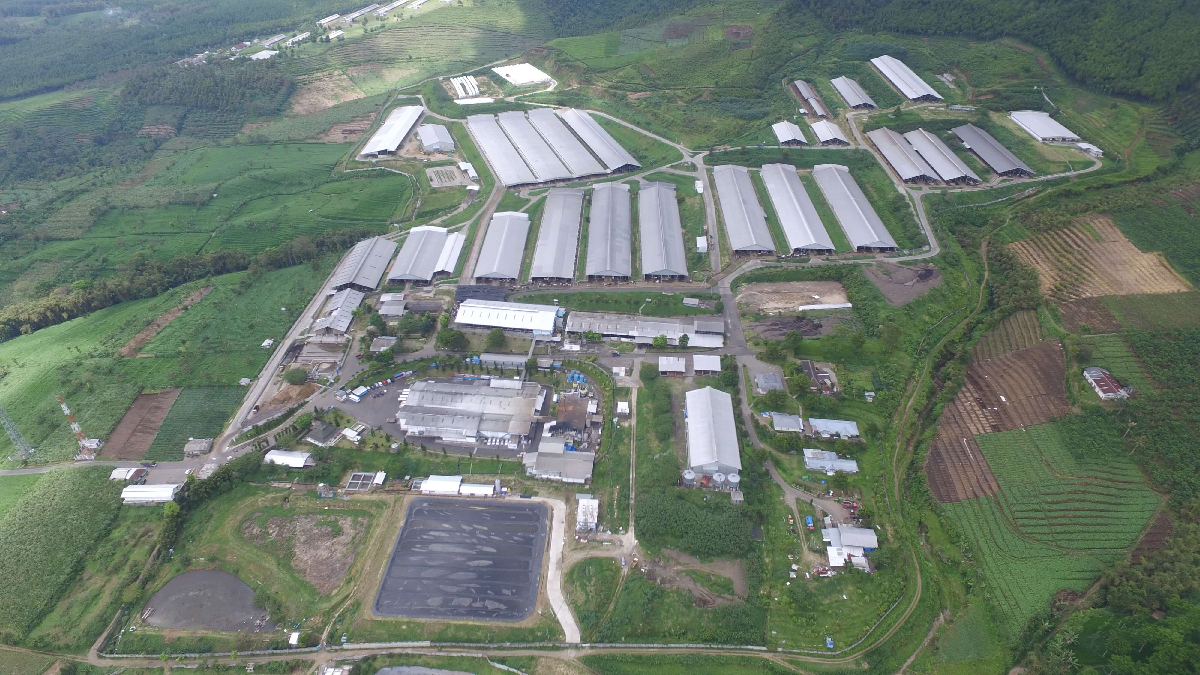 Source